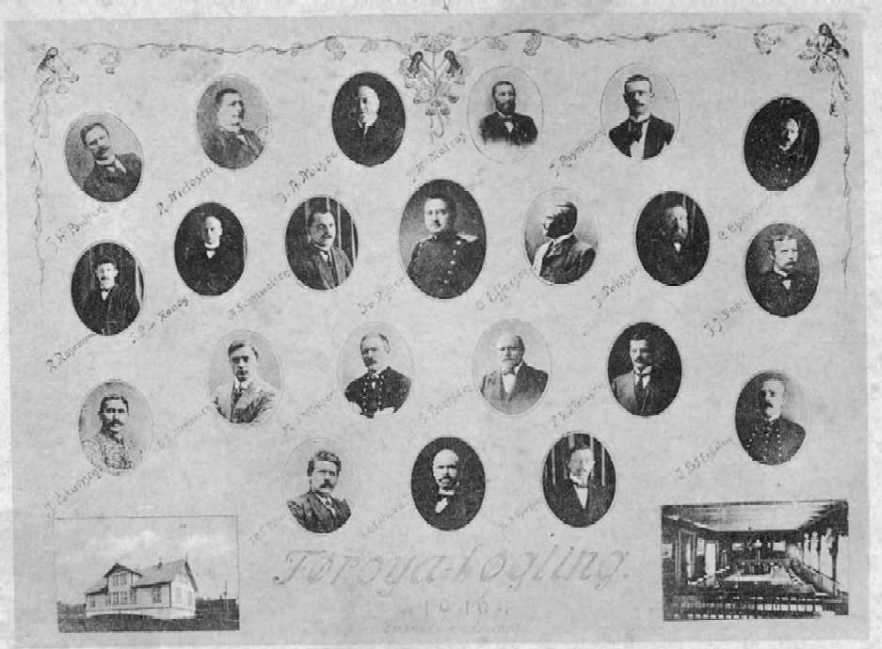 Members of the Løgting, parliament of the Faroe Islands, 1916